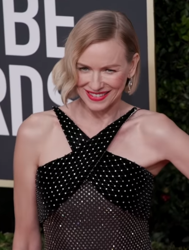 Naomi Watts at Golden Globes Red Carpet 2020